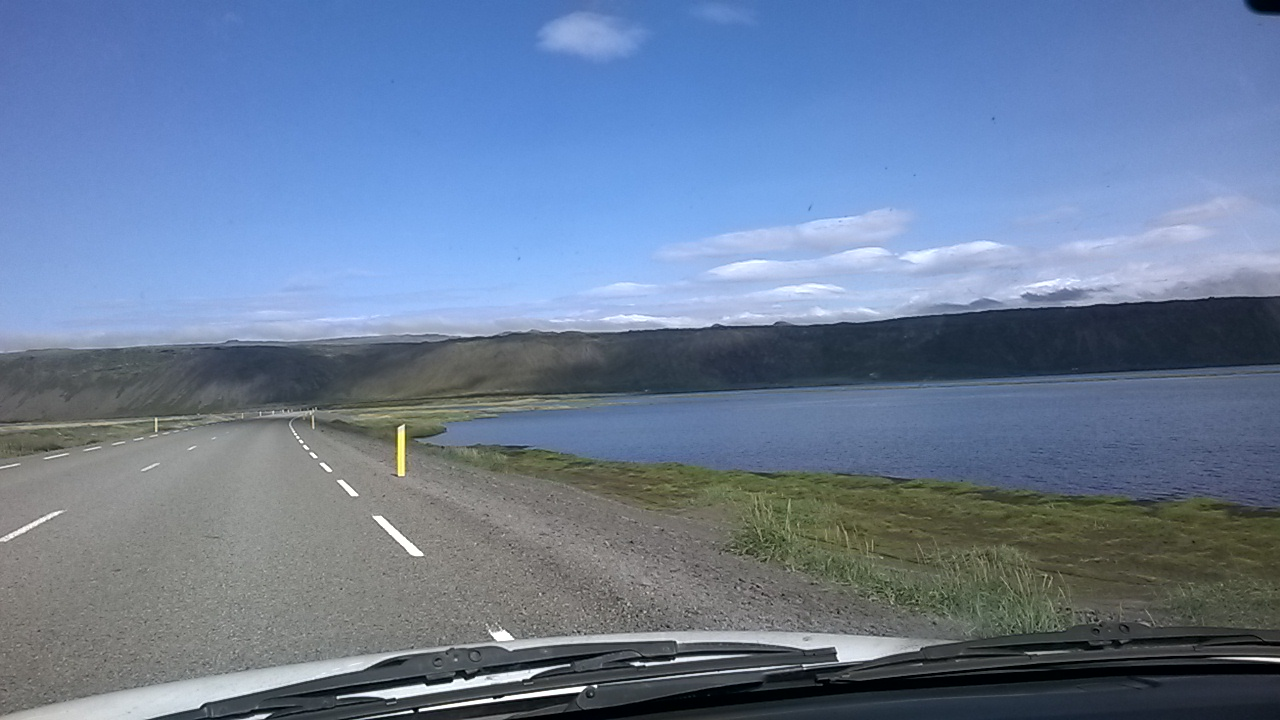 Reykjanes, Iceland